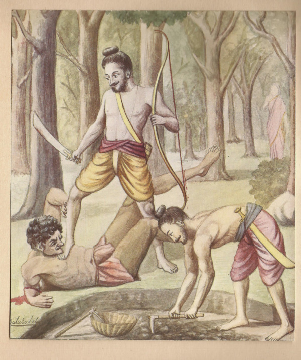 On their way to forest Ramachandra and Laxman killed many vicious demons. One day, Viradha the powerful demon caught them unawares and started chasing. Viradha had a special power in that he could not be killed with any weapon. Knowing this fact, Rama grounded and stood on him. Laxman dug a moat, and Viradha was buried live.